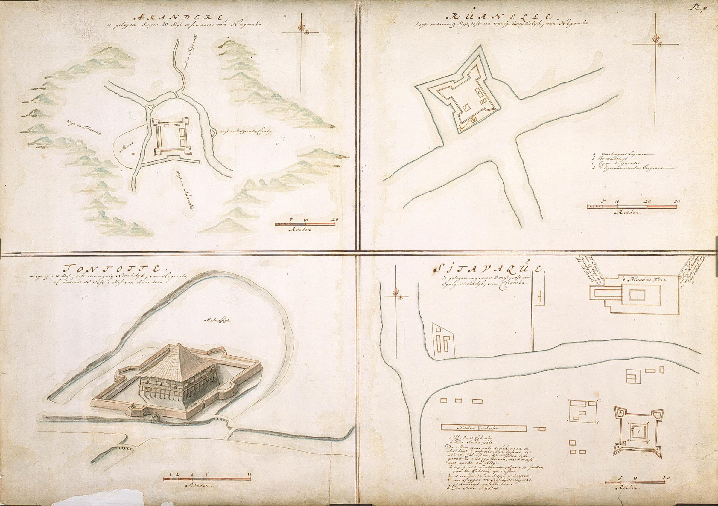 According to the Leupe catalogue (NA), the original title reads: Plan van Arandere, gelegen ruim 10 myl oostwaarts van Negombo; scale 20 Rods = 60 stripes; converted scale [1 : 1255]. VEL1074a: Verheven teekening van Tontotte, 9 a 10 myl oost, een weinig noordelyk van Negombo gelegen enz.; Scale of 12 Rods= 89 stripes; converted scale [1 : 507]. VEL1074b: Plan van Ruanelle, gelegen omtrent 9 myl oost, een weinig zuydelyk van Negombo; Scale of 30 Rods = 93 stripes; converted scale [1 : 1214]. VEL1074c: Plan als voren, van Sitavaque, gelegen op 8 myl oost, een weinig noordelyk van Colombo; Scale 20 Rods = 60 stripes; converted scale [1 : 1255]. Restored. Numbered top right: 23 p. Notes on reverse: N 5 : 44 [in pencil] / 586 f.